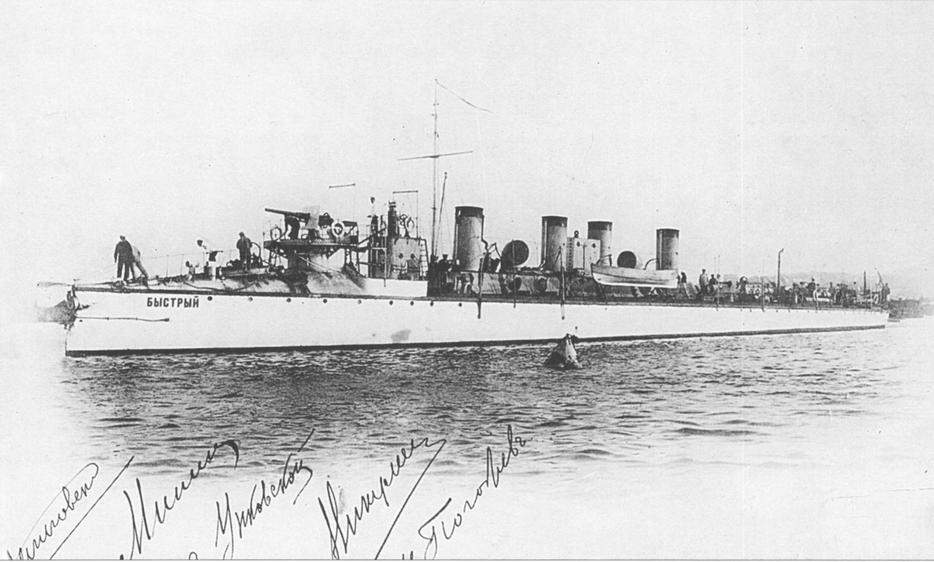 Imperial Russian destroyer Bystryi.